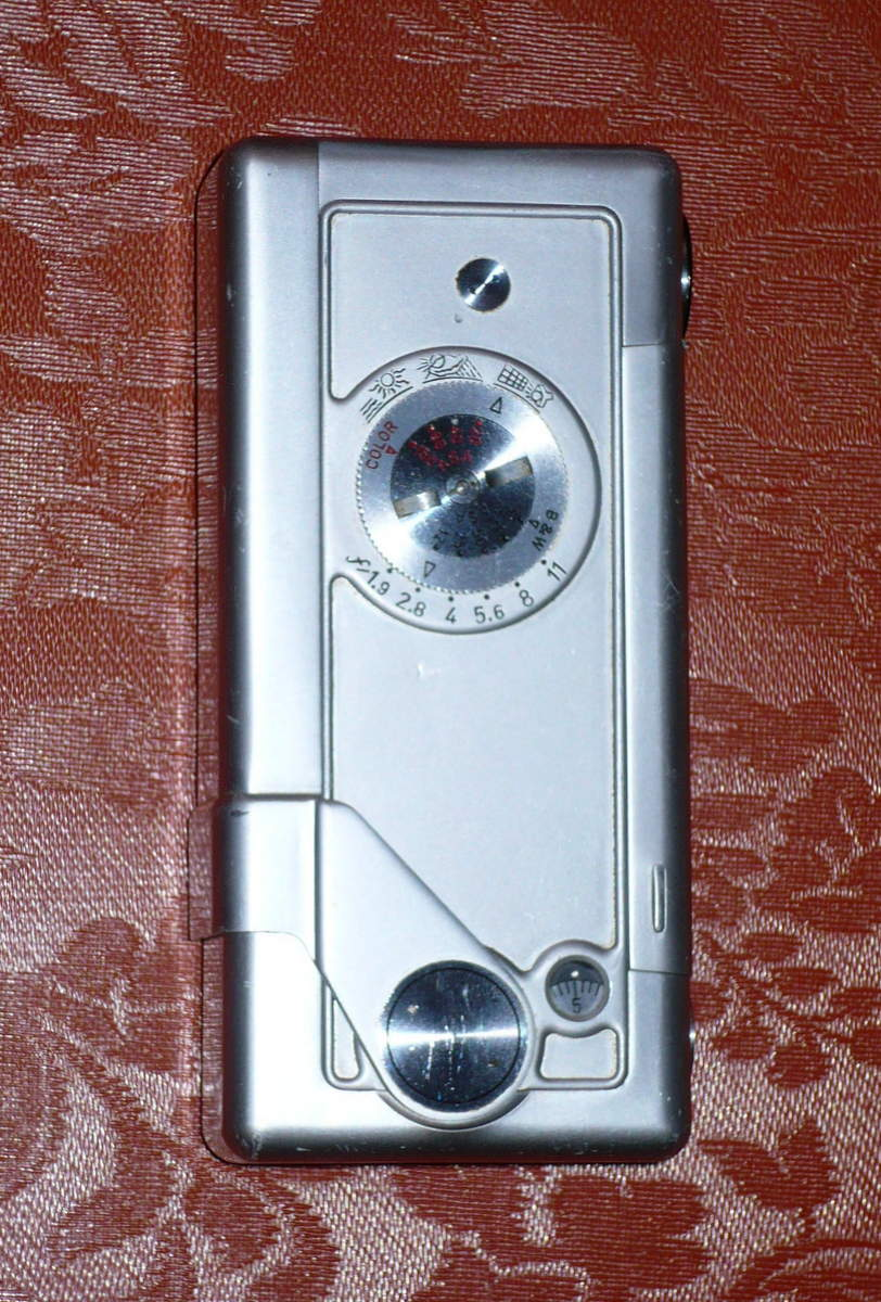 Gami 16 aperture dial